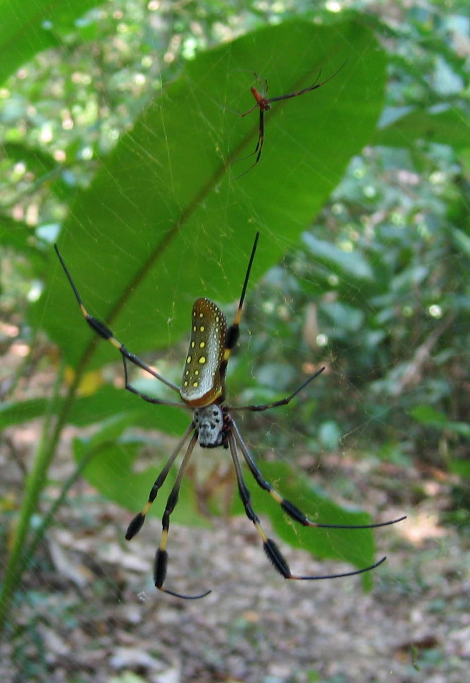 Golden Orb Weavers (Nephila clavipes) in Parque Nacional Corcovado, a female in the foreground and a male in the background. See also Image:DirkvdM golden orb weaver.jpg. Original filename: 040327_7754.jpg